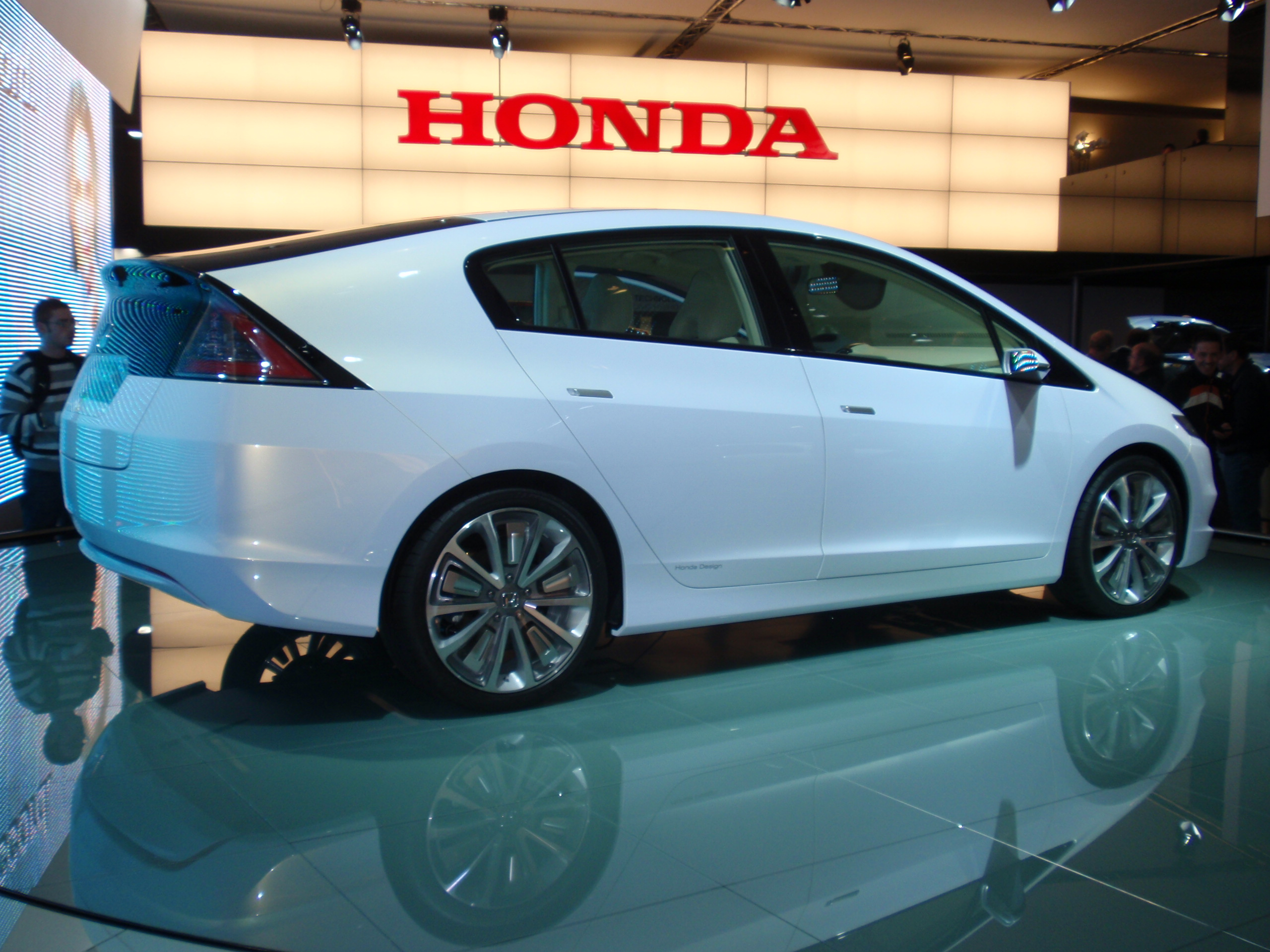 Honda Insight Concept at the 2008 Paris Motor Show